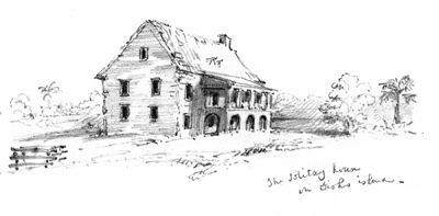 Drawing of the house of Jesse Fish at his plantation, El Vergel, from "The sketchbook of Henry J. Morton", with historical notes by Thomas Graham. 1867